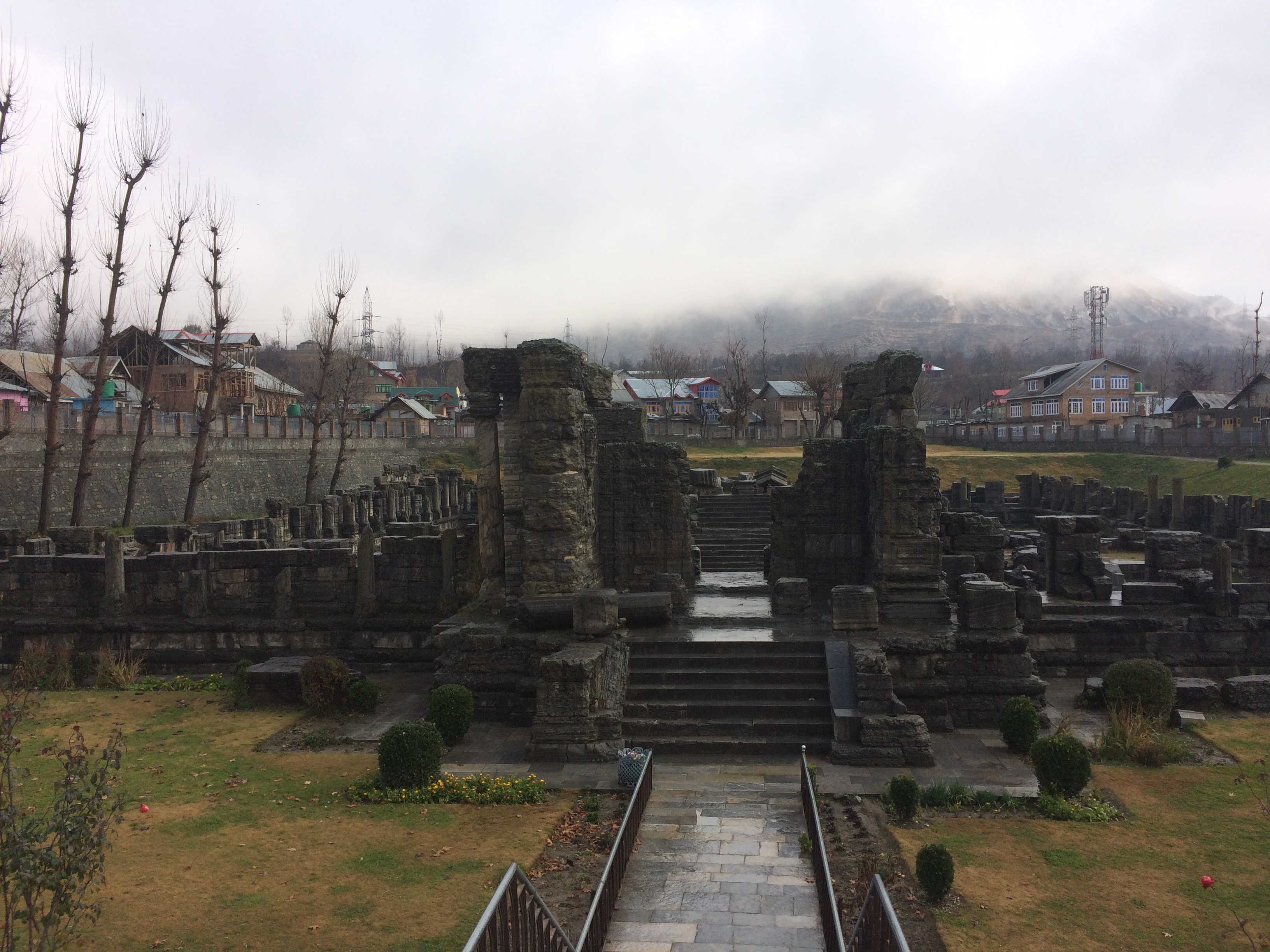 Awanti Swami Temple